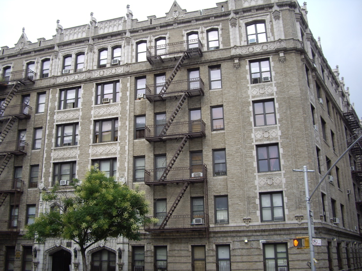 Looking west from 157th Street at Duke Ellington Residence, Harlem, New York City, NY